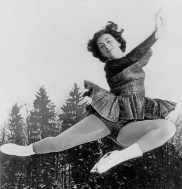 LD49 '51 Wire Photo JEANETTE ALTWEGG Milan Italy Figure Skating Champion Athlete